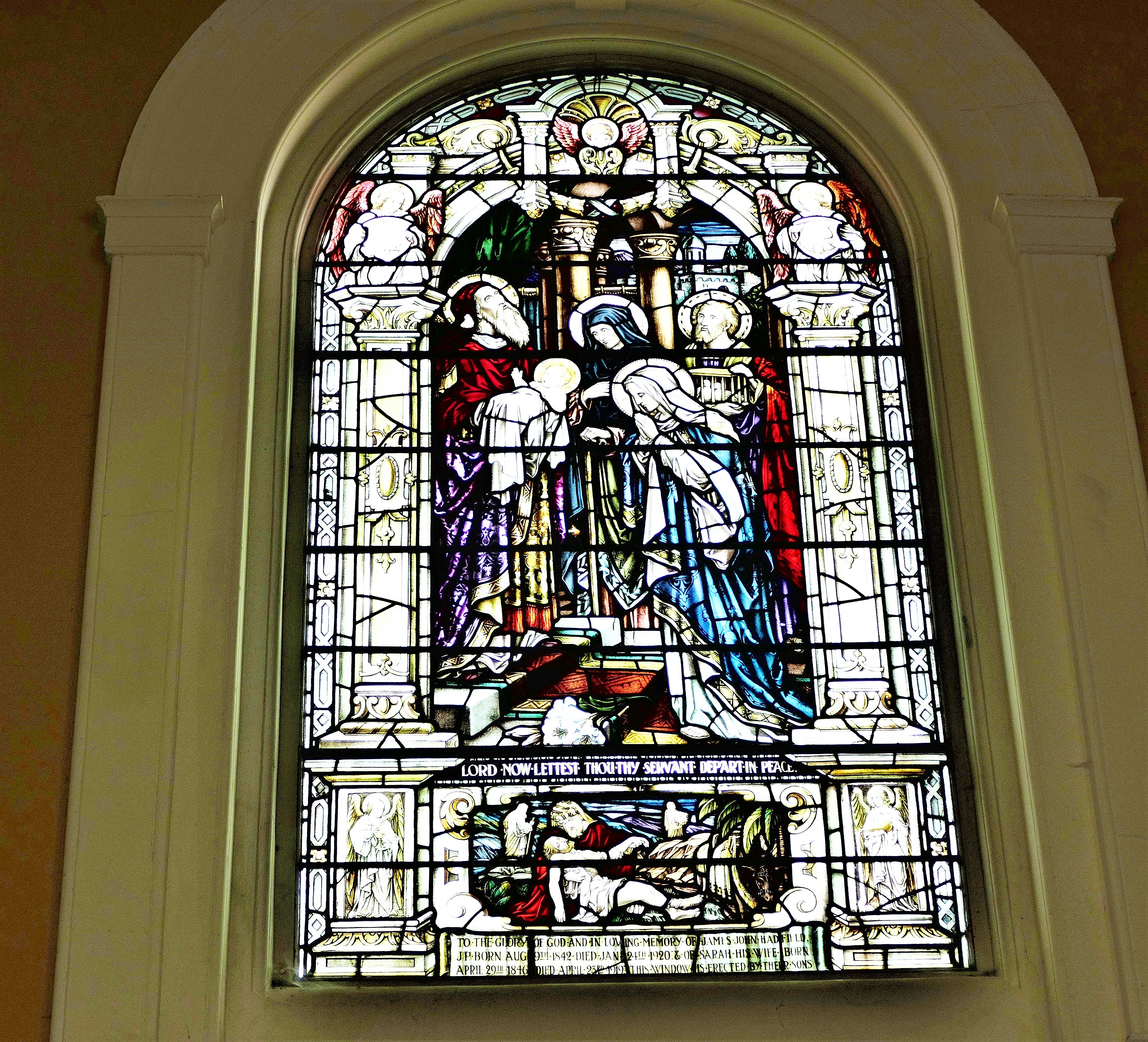 Stained Glass in Providence URC